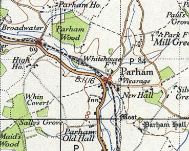 Historical map from 1945 showing Parham